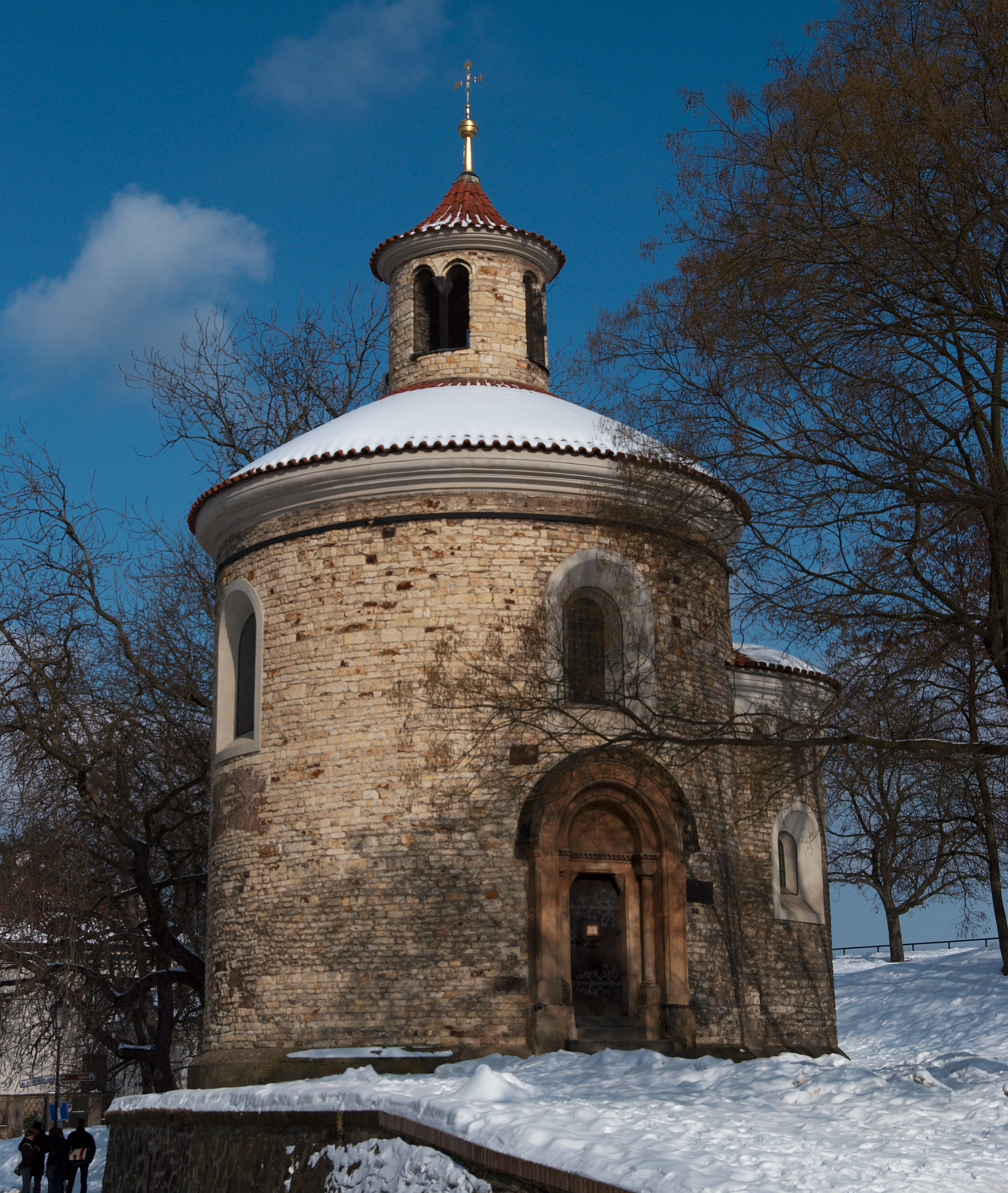 Rotunda of Saint Martin on Vysehrad in Prague, Czech Republic Česky: Rotunda Svatého Martina na Vyšehradě v Praze